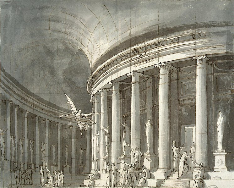 Stage design with Rotunda Temple, 1790s, by Pietro di Gottardo Gonzaga (1751-1831).